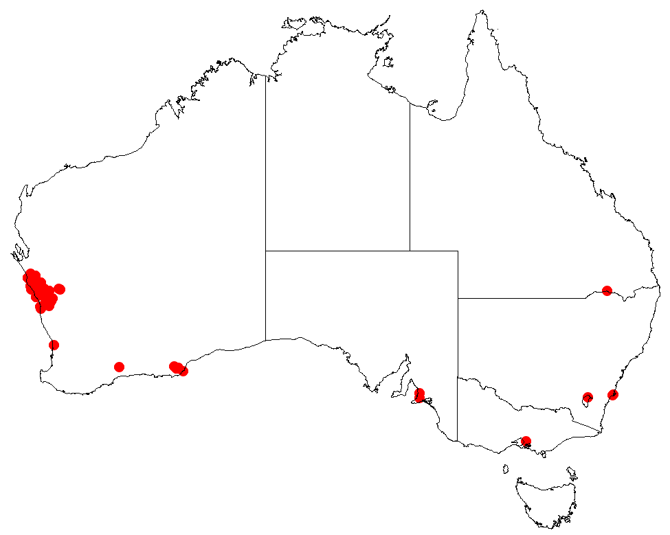 Hakea pycnoneura Occurrence data downloaded from Australasian Virtual Herbarium on 22 November 2018 using